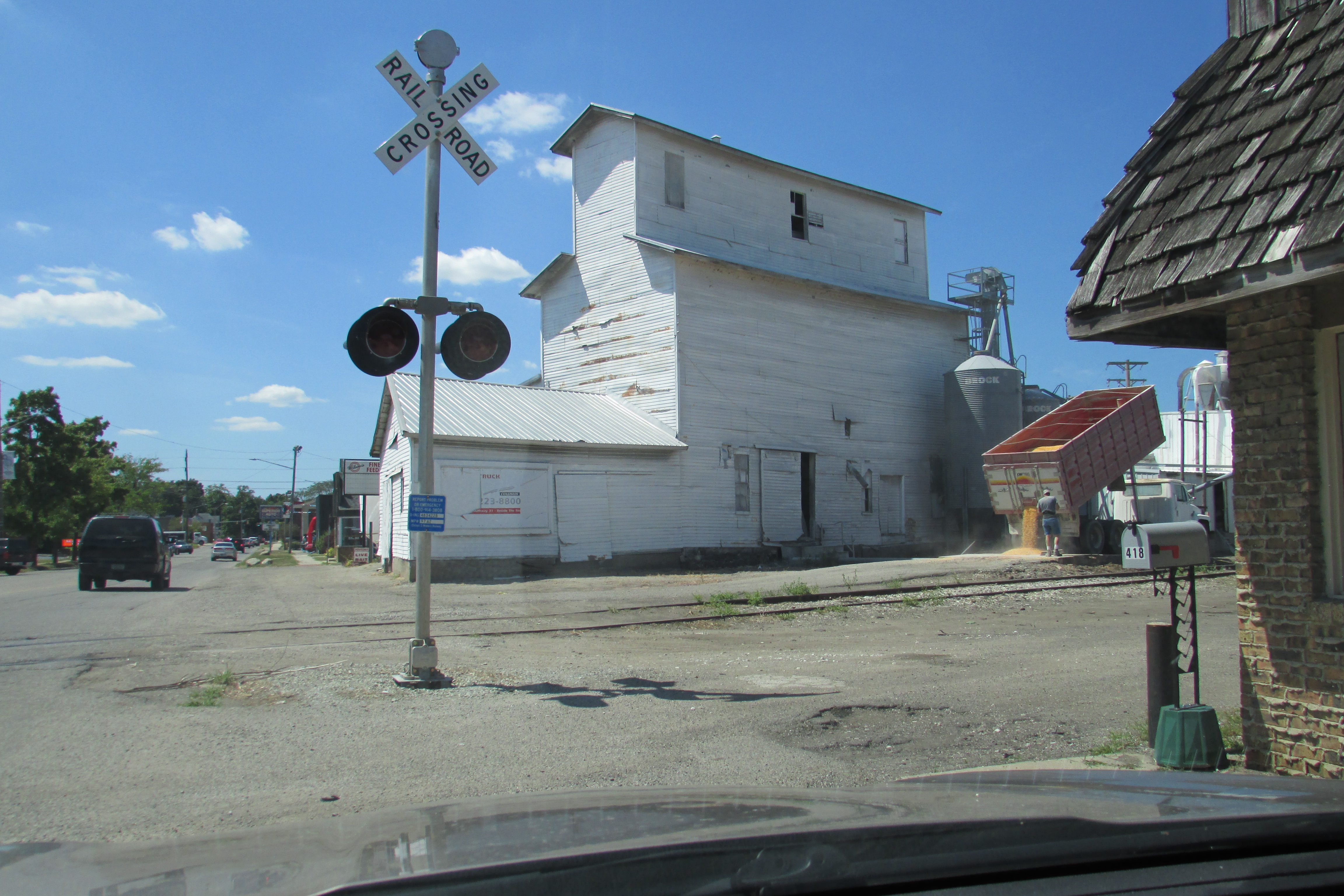 Sheppard, Denniston and Caffyn Elevator, south of the Nickle Plate RR station location in Rochester, Indiana.